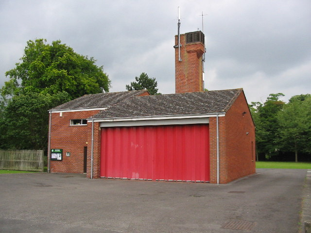 Goring Fire Station, Cleeve. Oxfordshire County Council Fire and Rescue Service in Cleeve